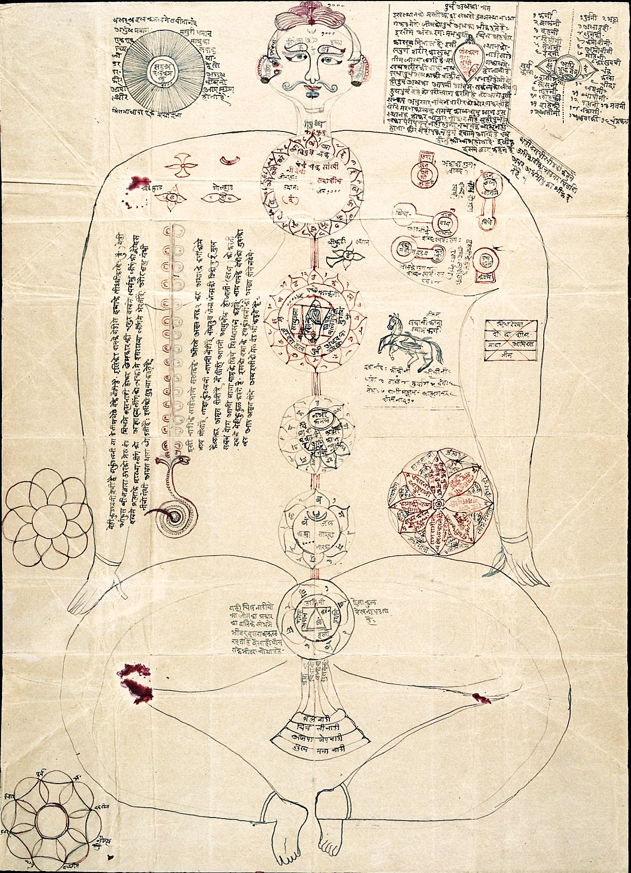 Unidentified, side a, ink, a large line drawing of a man showing the seven subtle centres (cakra) with the body, the main subtle veins (nadi), and the coiled serpent energy at the base of the spine (kundalini). Asian Collection